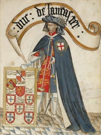 Henry of Grosmont, first duke of Lancaster, from the Bruges Garter Book.